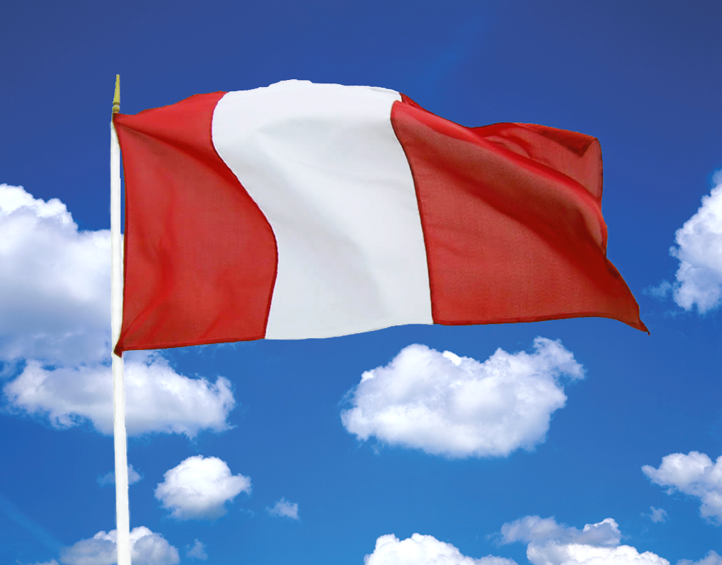 Peruvian Flag